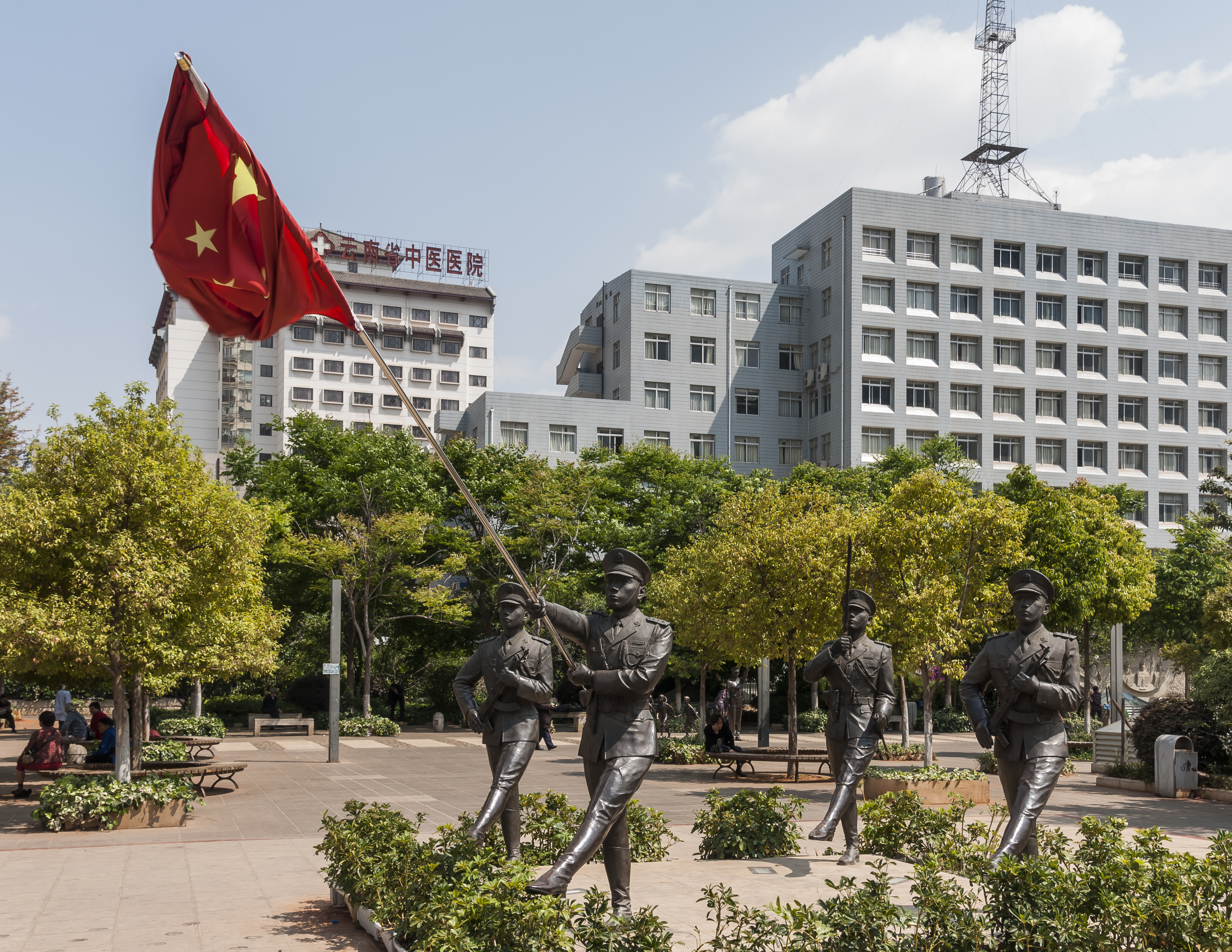 Kunming, Yunnan, China: Jingxing Park with the "Monument to Policemen". in the background right side the Yunnan Provincial Police Association.